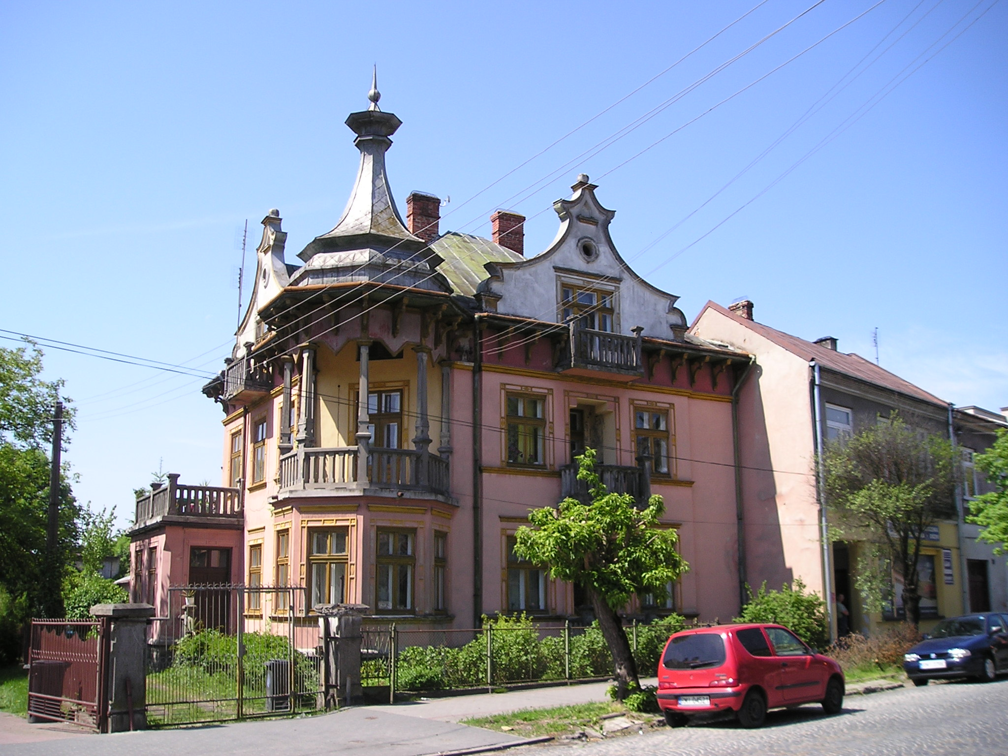 Weryński villa, Kościuszko Street, Mielec, Poland